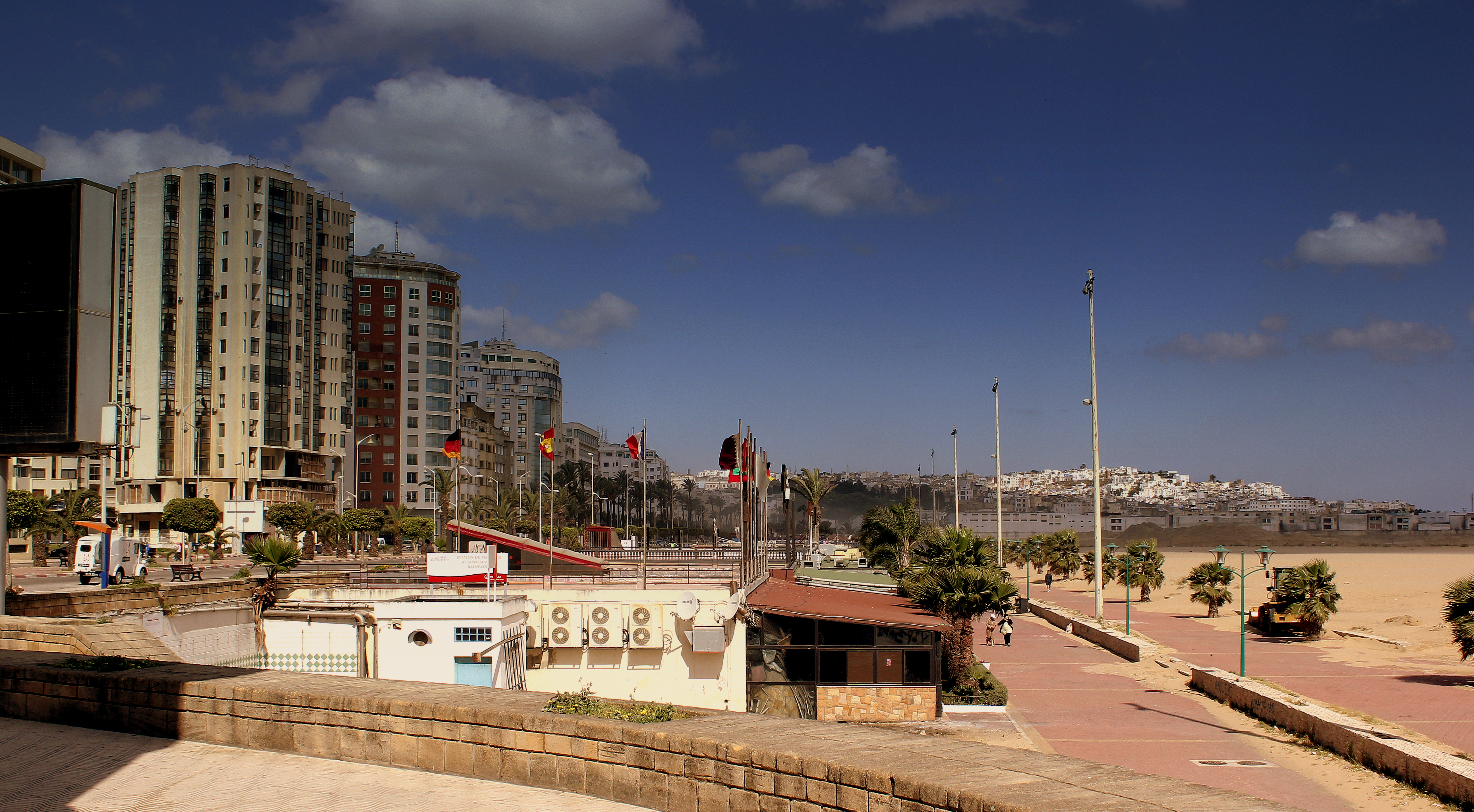 TANGER BEACH FRONT MOROCCO APRIL 2013